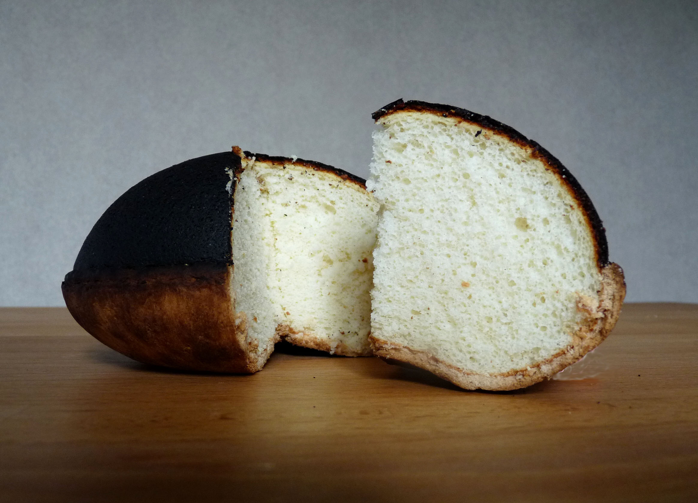 Tourteau fromager (typical cheese cake from Deux-Sèvres, France)